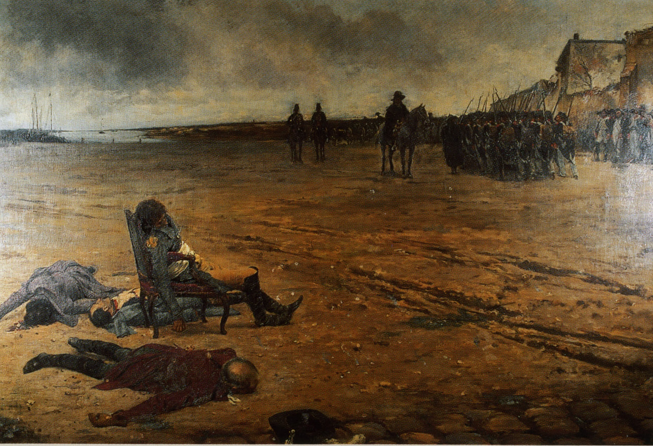 Execution of general d'Elbée. Elbée had been severely wounded at the battle of Cholet in 1793. He was removed to the island of Noirmoutier to be executed. However, his injuries were such that he had to be seated in an armchair to face the execution squad